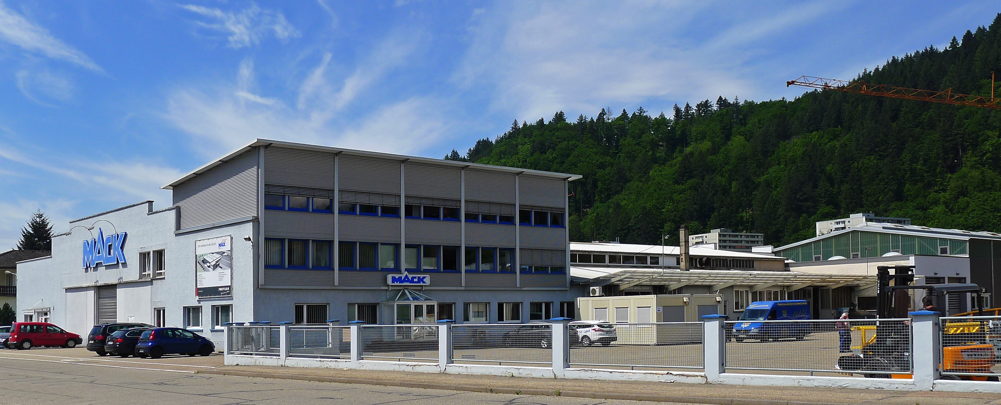 Mack Rides corporate headquarters in Waldkirch, Germany.